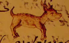 Techihci dog